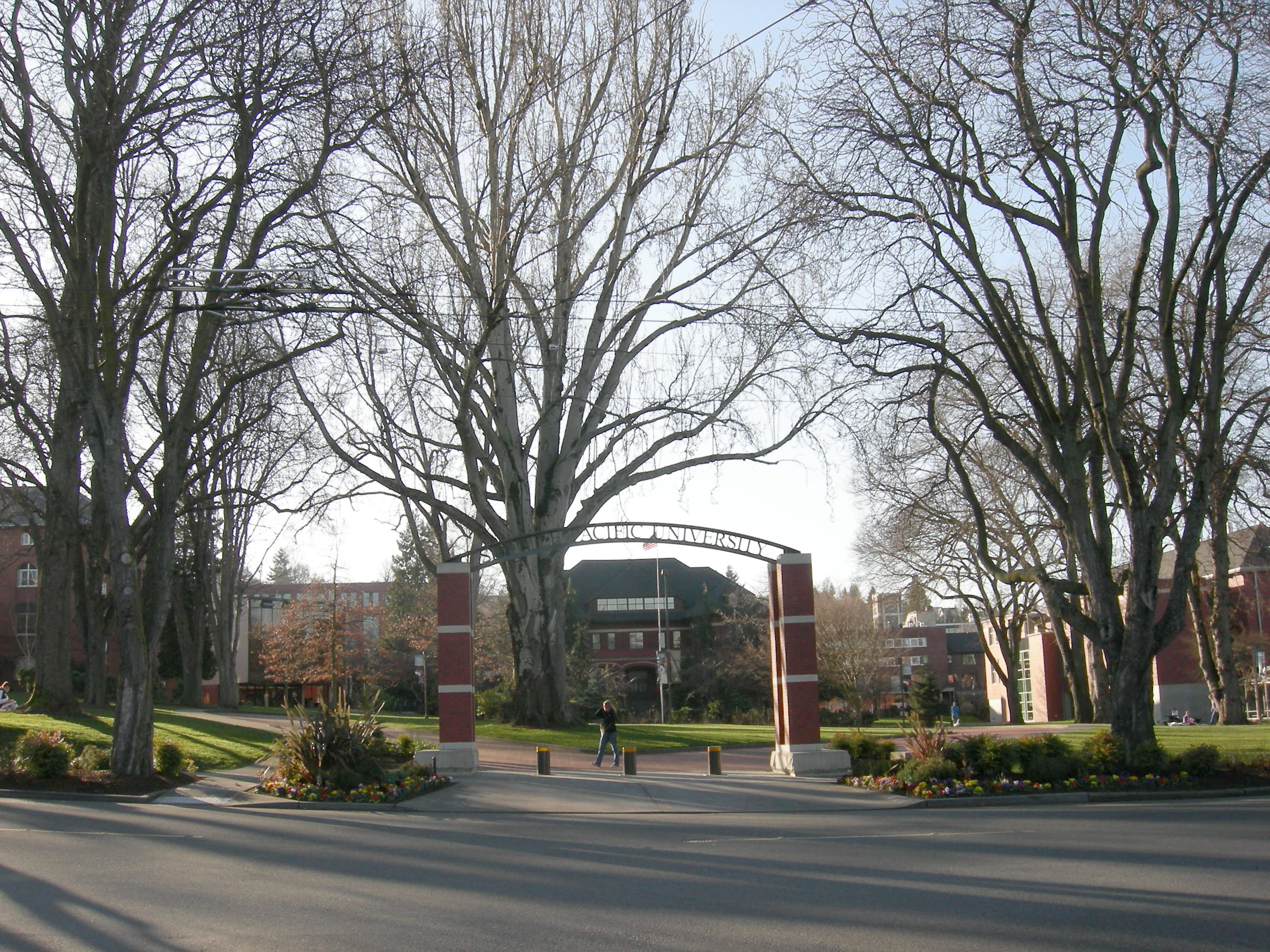 Seattle Pacific University campus, Seattle, Washington. The Richardsonian Romanesque building in the center background is Peterson Hall, the former administration building.